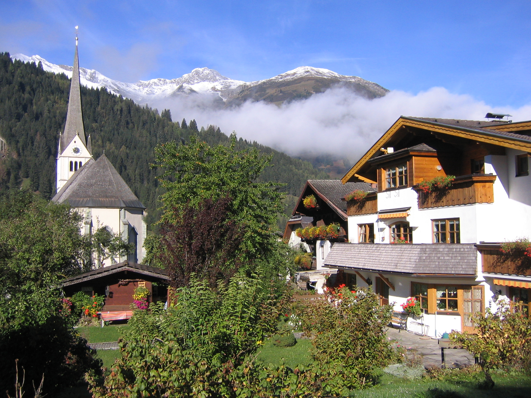 Rauris, Salzburger Land